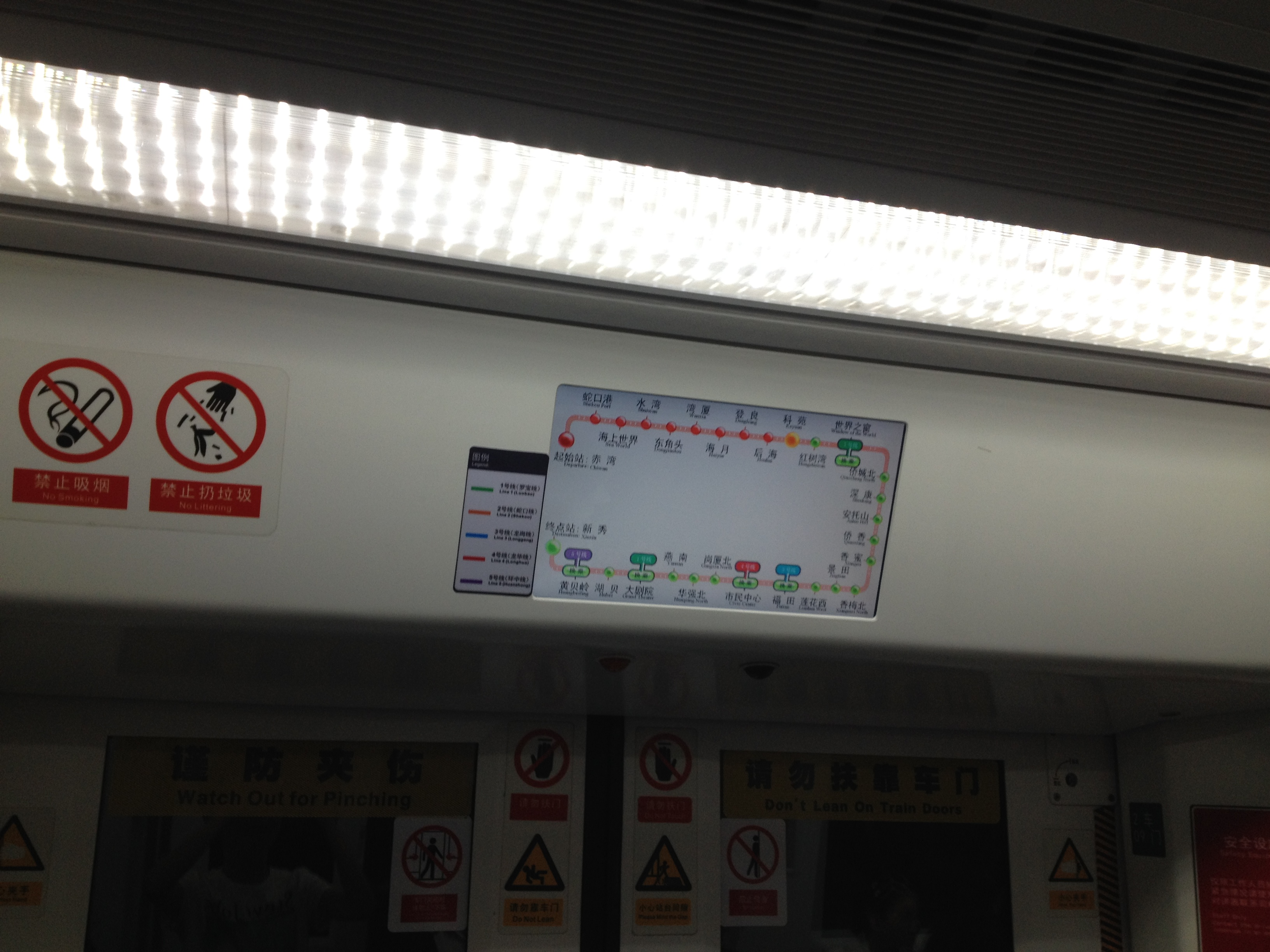 Shenzhen Metro Line 2 Train Screen